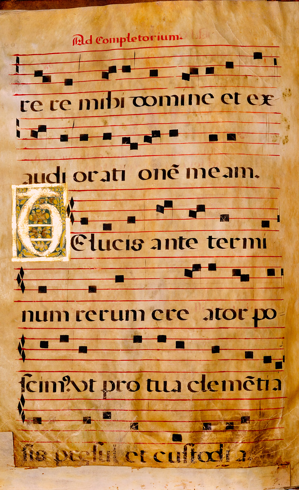 No known copyright restrictions. Please credit UBC Library as the image source. For more information, see Notes: Ad Completorium or Compline, nightly prayers. Creator: Catholic Church Date Created: [between 1575 and 1625?] Source: University of British Columbia Library - Rare Books and Special Collections Permanent URL